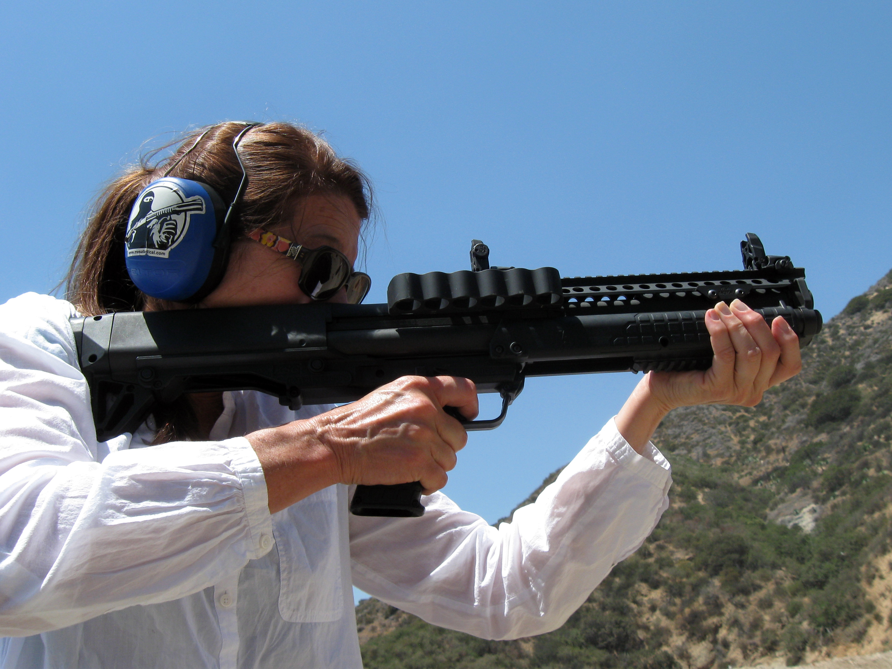 Kel Tec KSG Shotgun with Shells Carrier fired by a woman